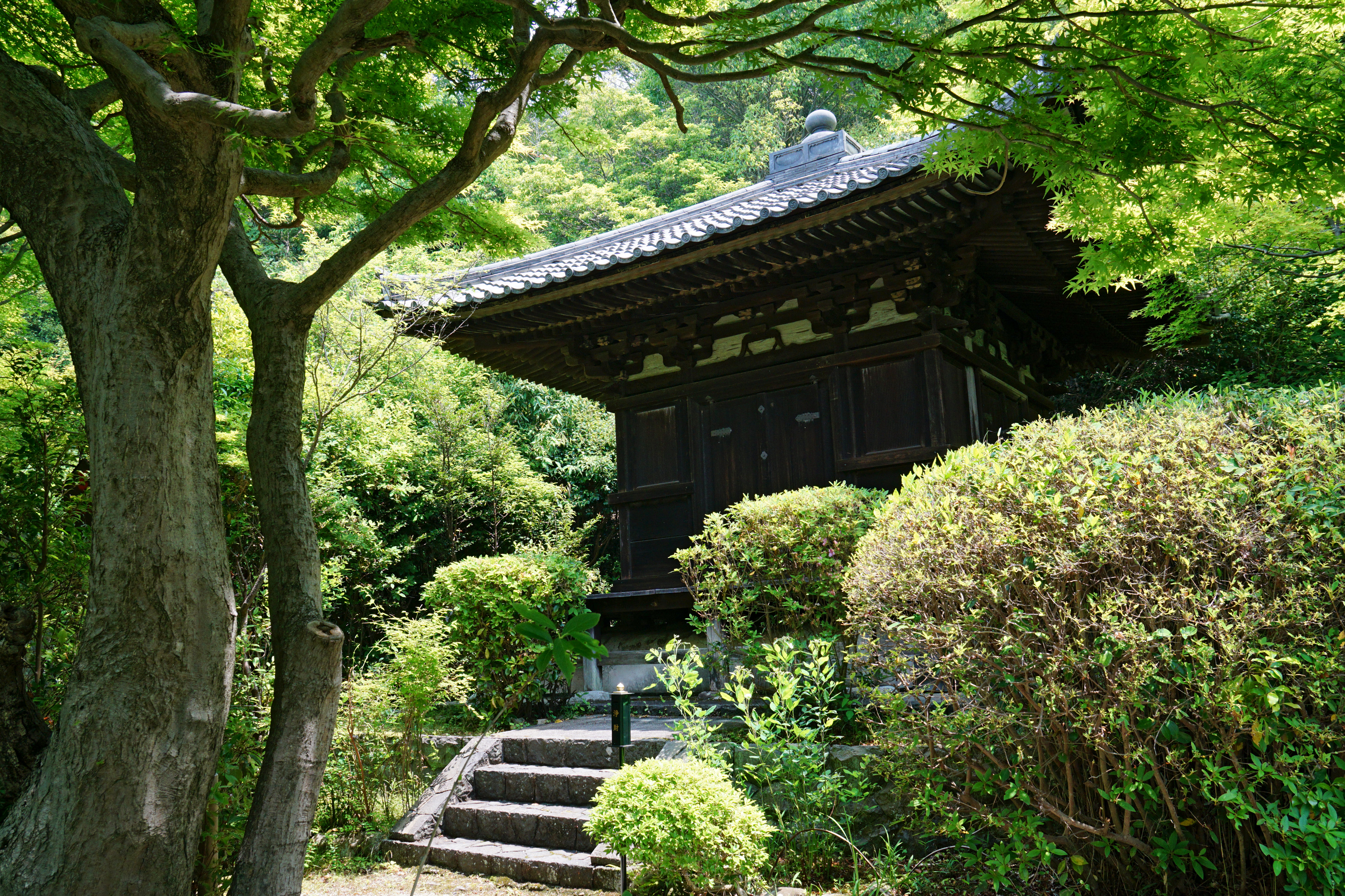 Futai-ji in Nara, Nara prefecture, Japan.